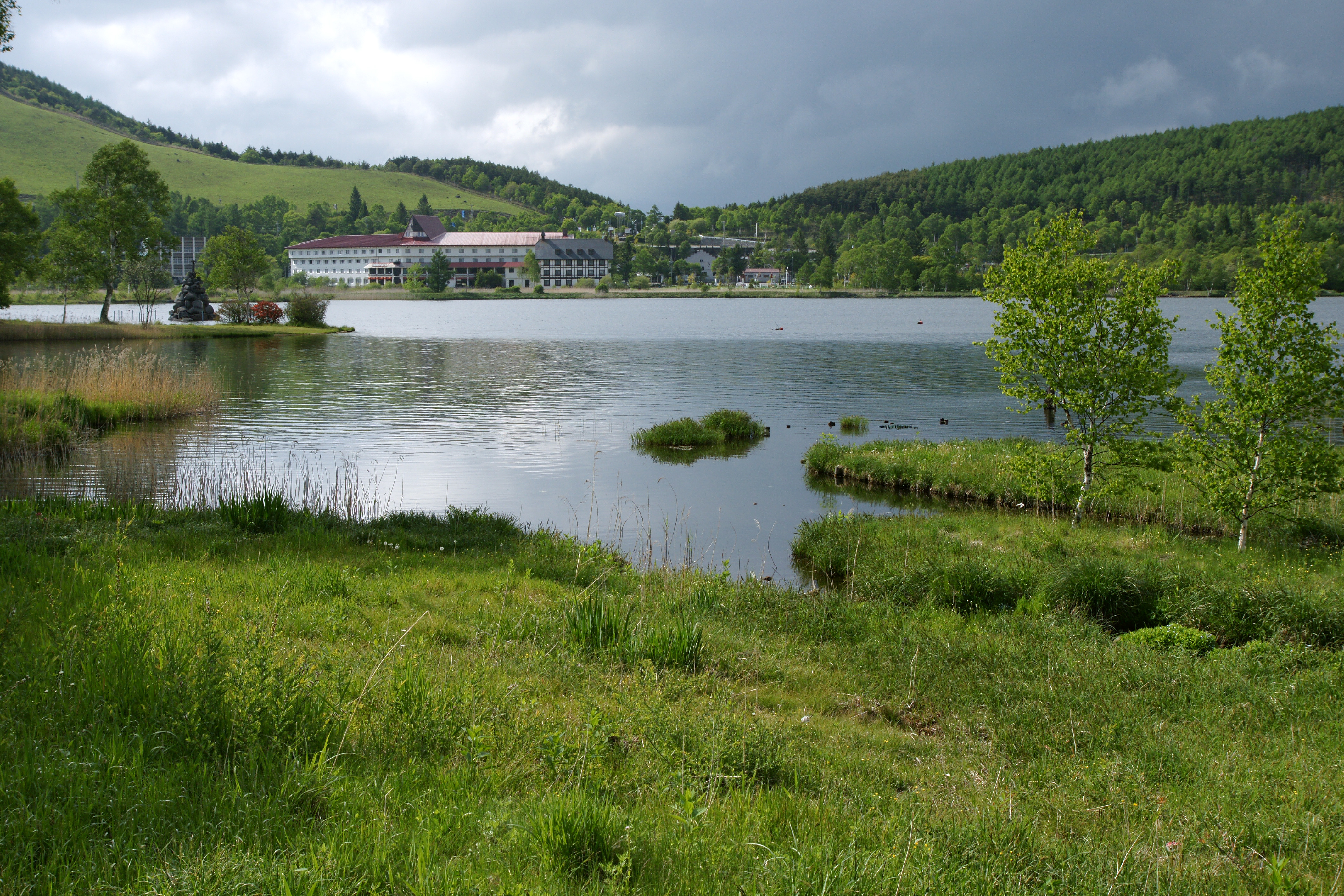 Lake Shirakaba, Chino and Tateshina, Nagano prefecture, Japan